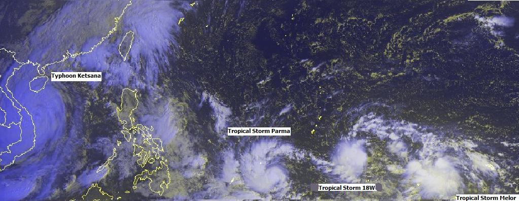 Three tropical cyclone in western pacific,.(Parma, TS 18W, Melor). and one in south china sea (Ketsana).